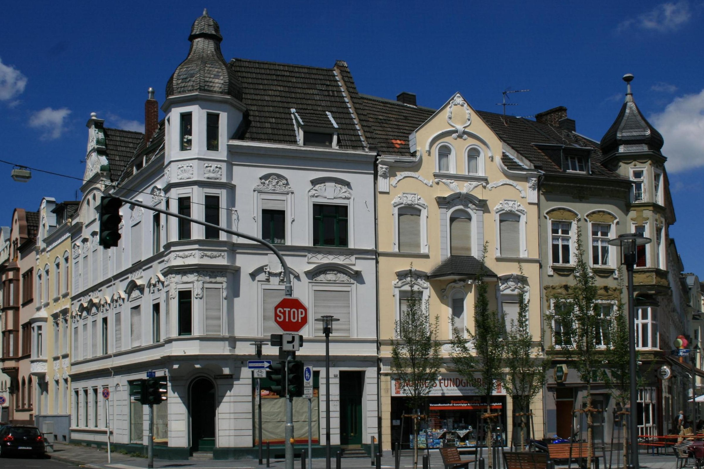 Cultural heritage monument No. R 031 in Mönchengladbach